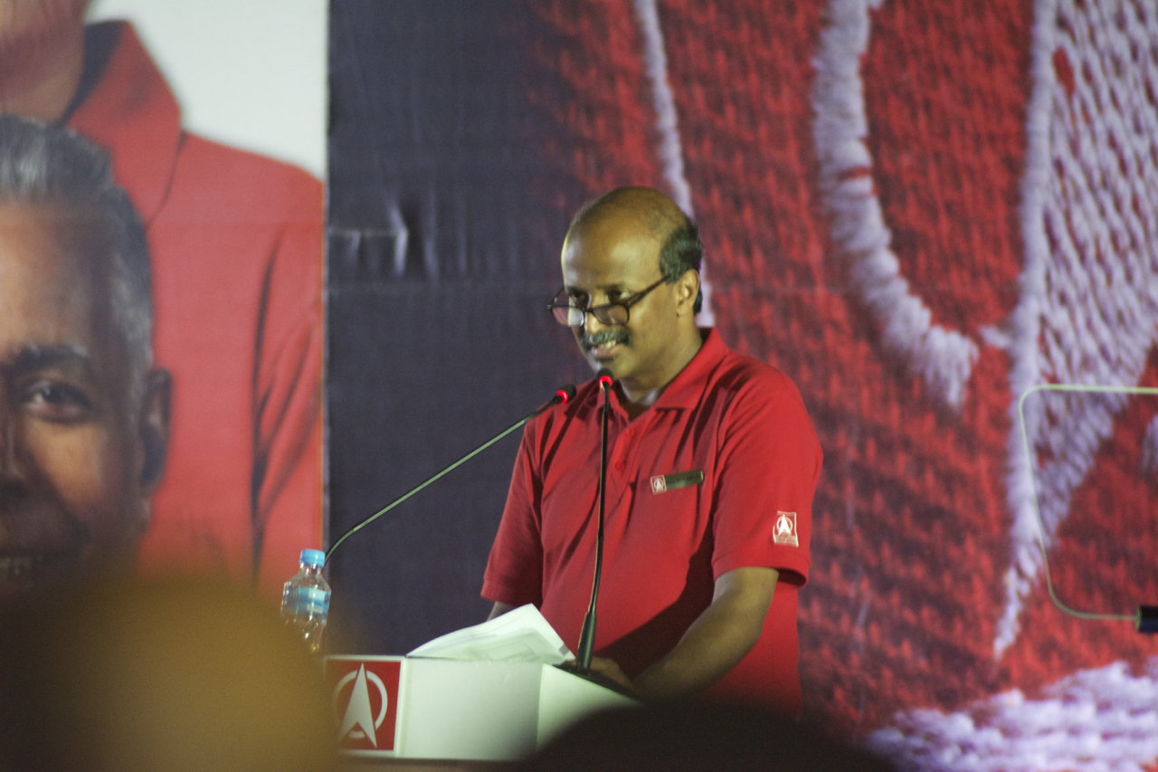 Dr. Paul Ananth Tambyah of the Singapore Democratic Party speaking at a rally held at the field in front of Block 204 Clementi Avenue 6 during the Singaporean general election, 2015.